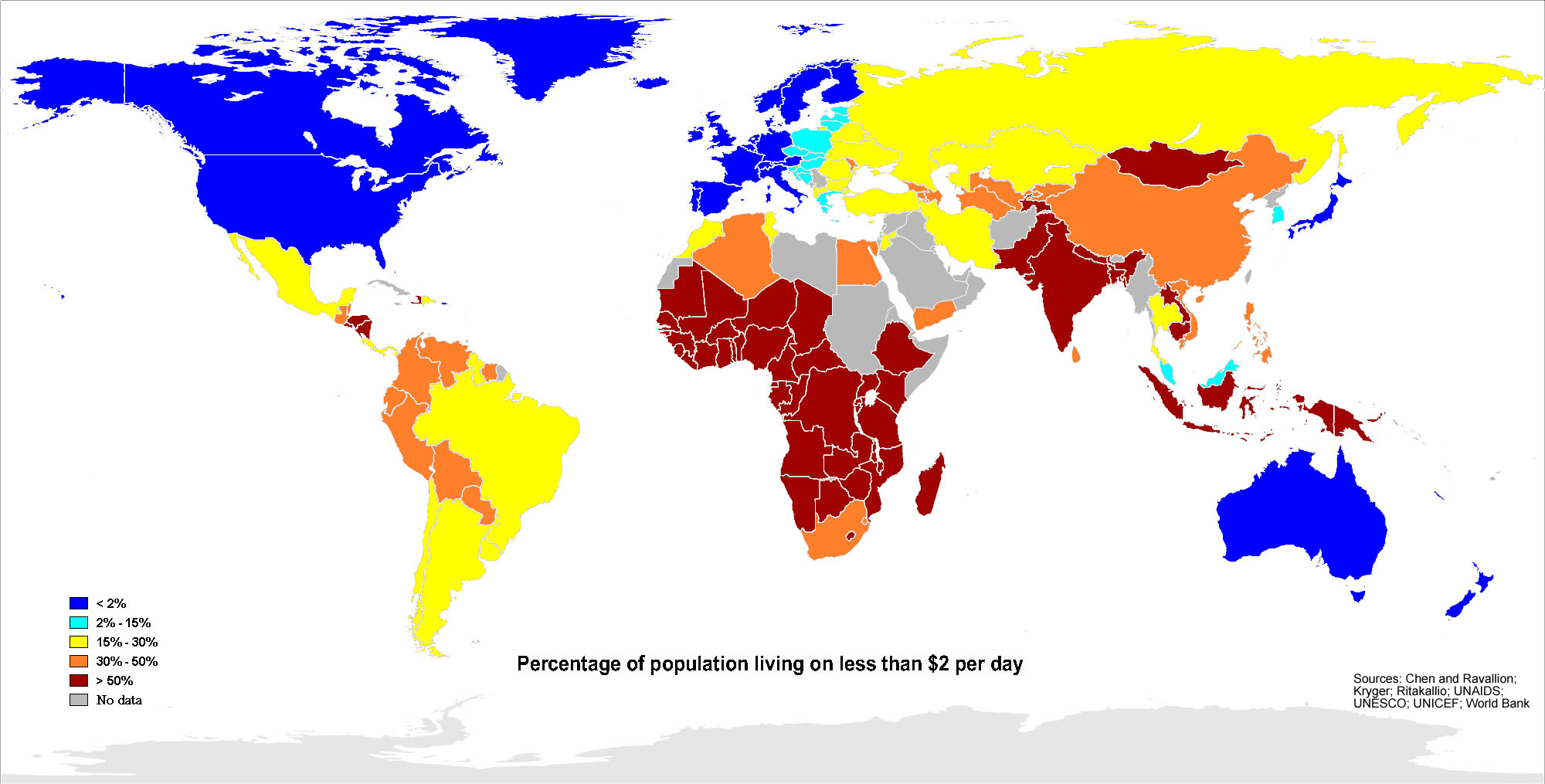 World Map showing the percent of national populations living on less than $2 per day.